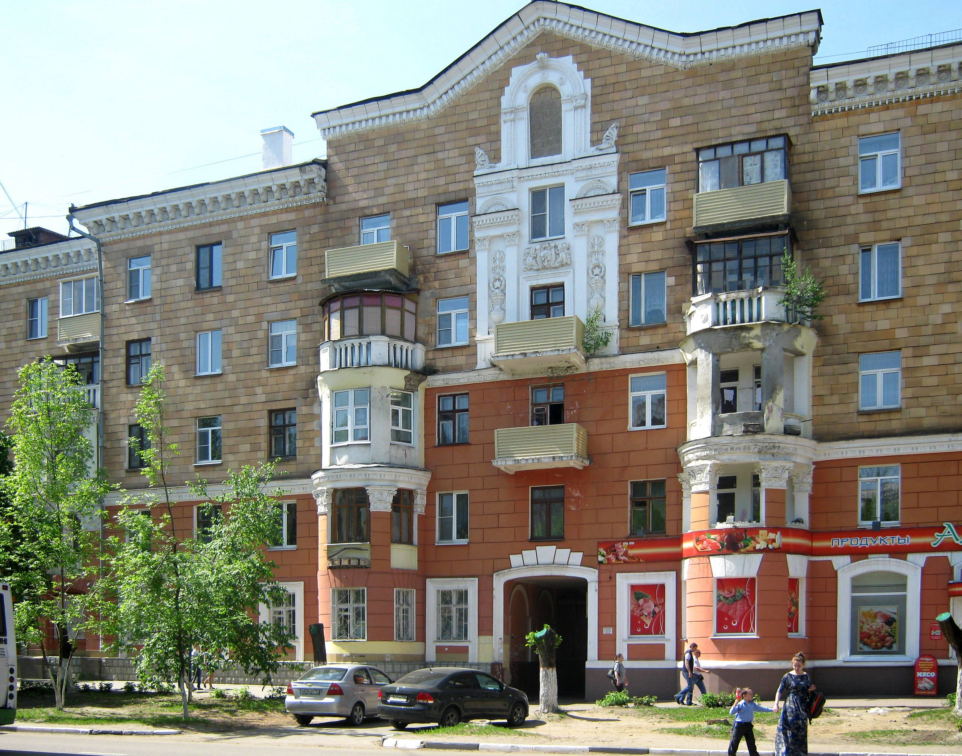 Дом 42 по проспекту Ленина (Электросталь)